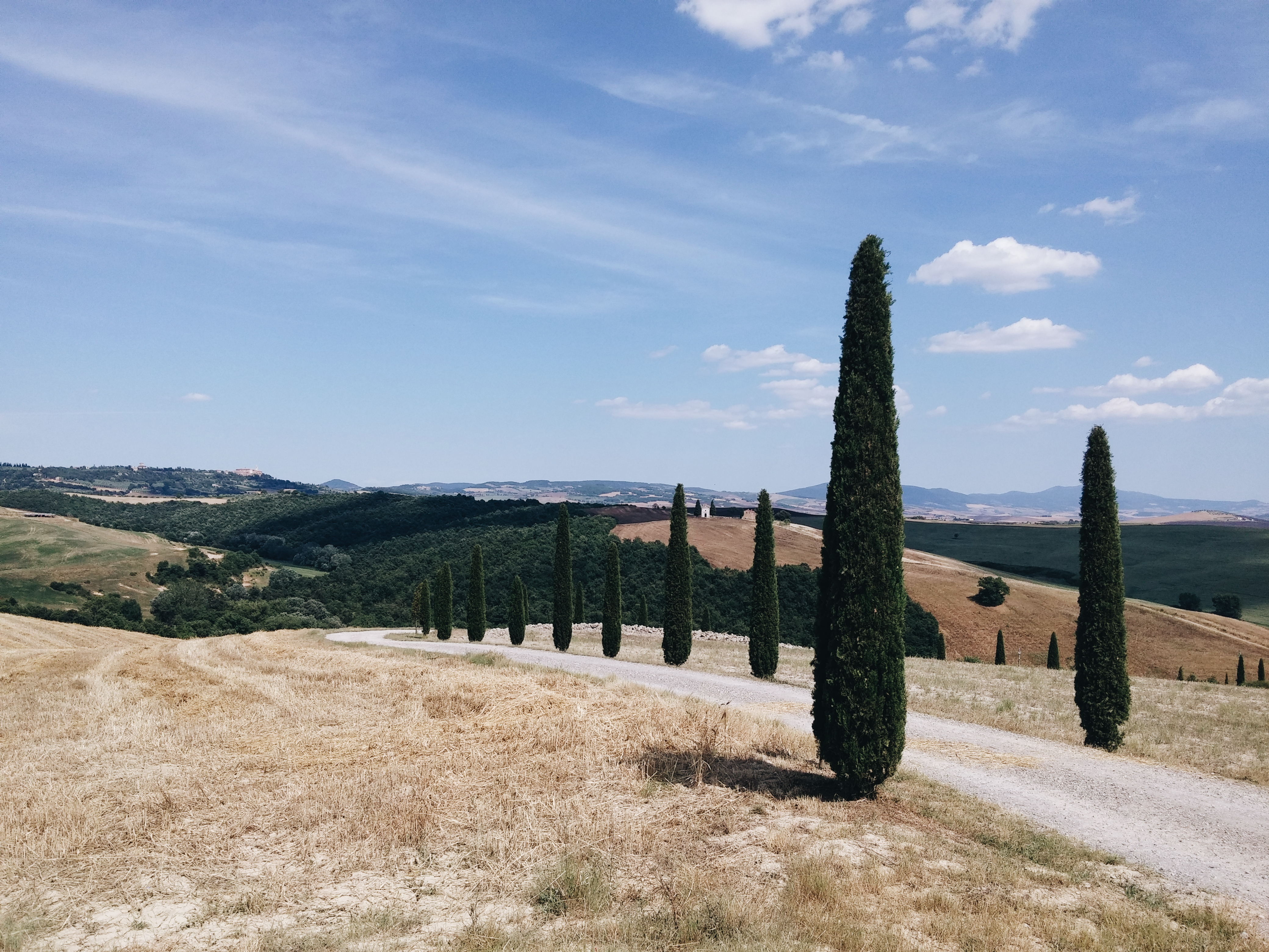 Typical cypress in Val d'Orcia (Orcia valley), famous valley in Siena province, between the two villages of Pienza and San Quirico d'Orcia